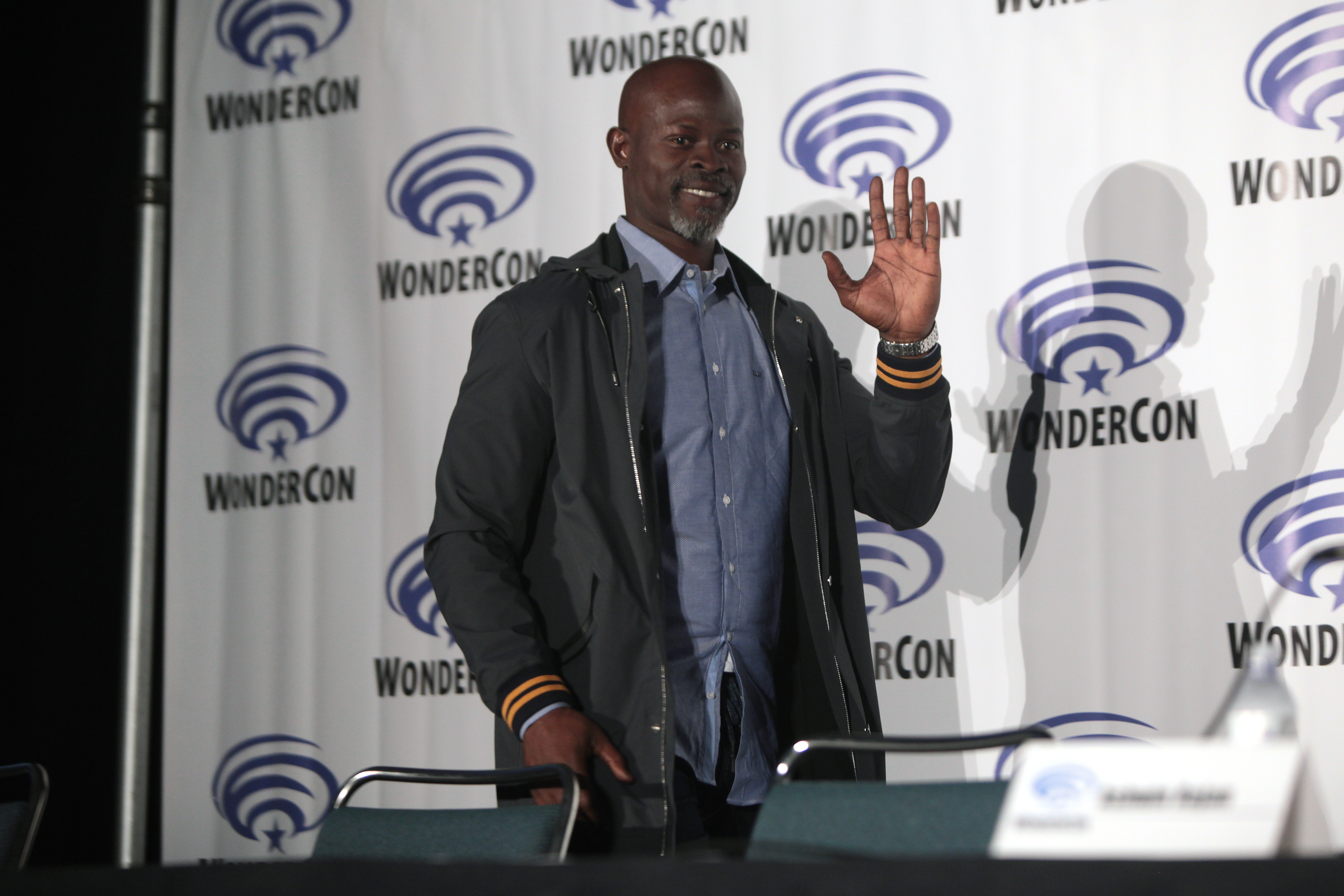 Djimon Hounsou speaking at the 2016 WonderCon, for "Wayward Pines", at the Los Angeles Convention Center in Los Angeles, California.